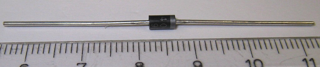 Diode 1N4001. (The ruler scale is in cm.)